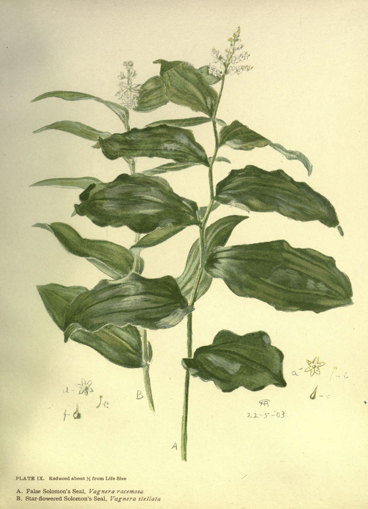 4 PLATE IX. Reduced about % from Life Size A. False Solomon's Seal, Vagnera racemosa B. Star-flowered Solomon's Seal, Vagnera stellata